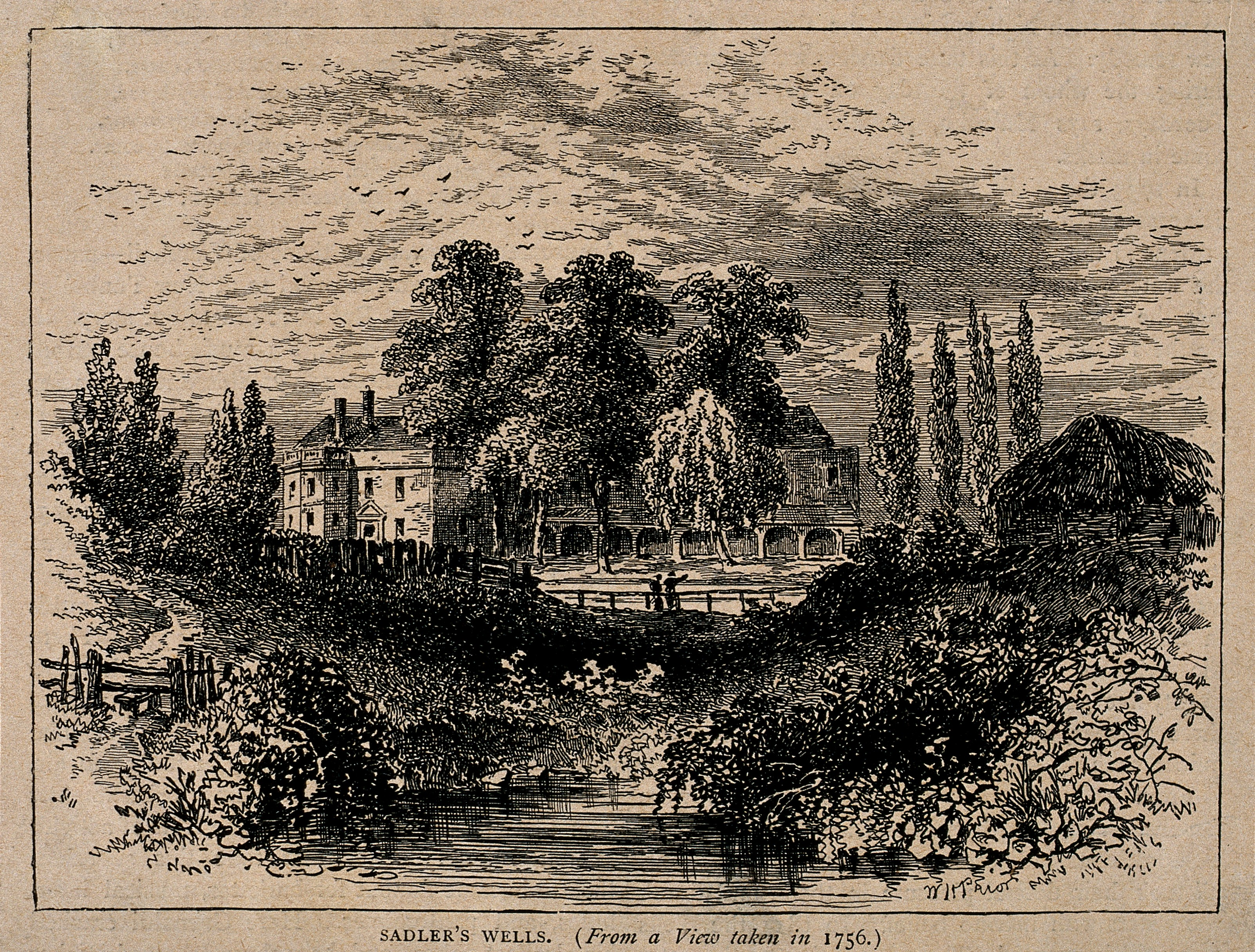 Sadler's Wells Theatre, with the New River running beside. Wood engraving by W. H. Prior. Iconographic Collections Keywords: William Henry Prior; Sadler's Wells